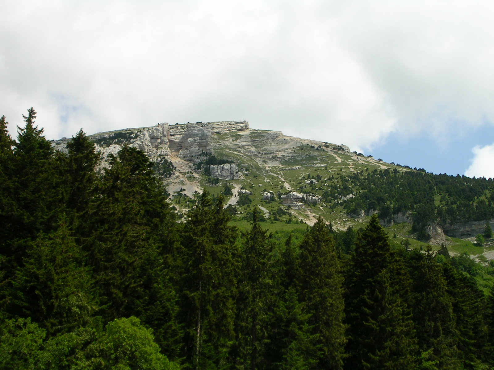 my own photograph